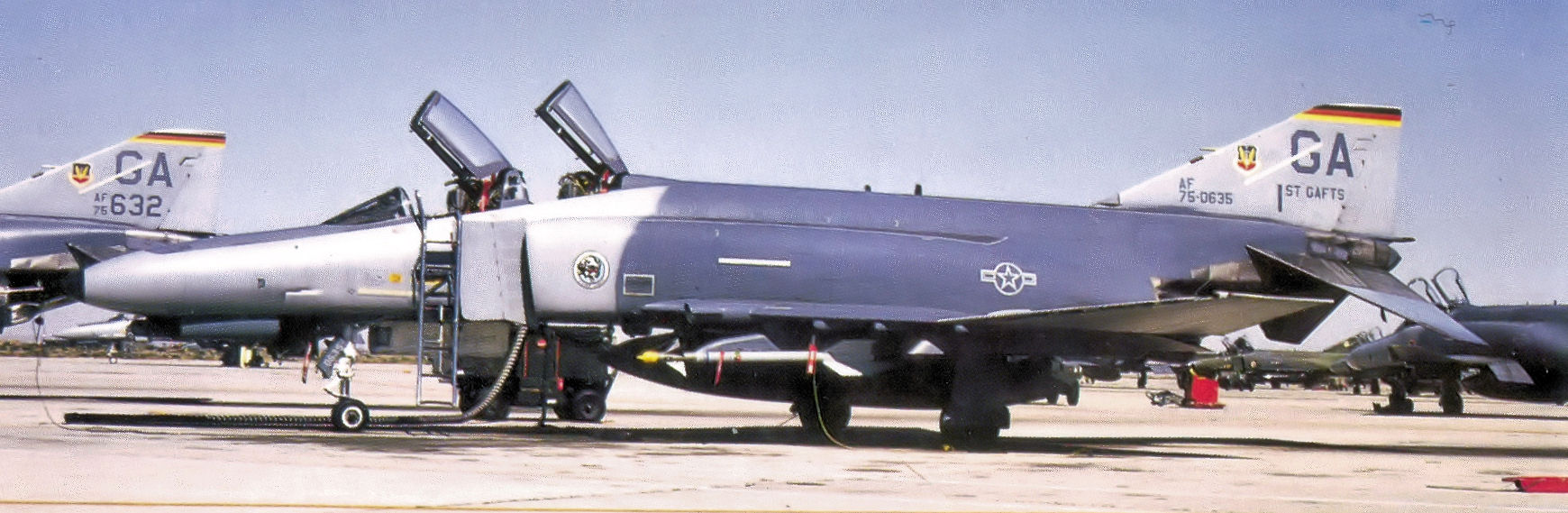 20th Tactical Fighter Training Squadron McDonnell Douglas F-4E-63-MC Phantom German Air Force aircraft operated by USAF as part of German Air Force training program at George AFB, California. Aircraft retired and seen in disposal compount, Fassberg, Germany March 2007